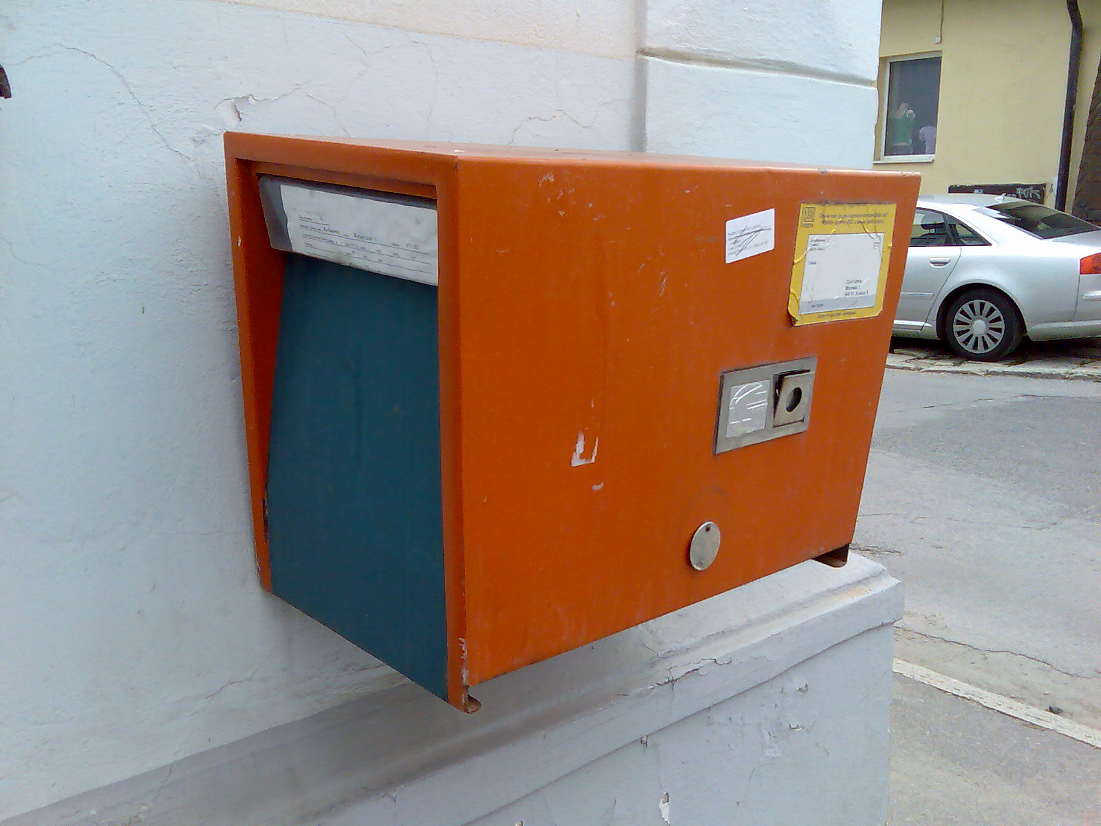 Post box in Czechoslovakia.